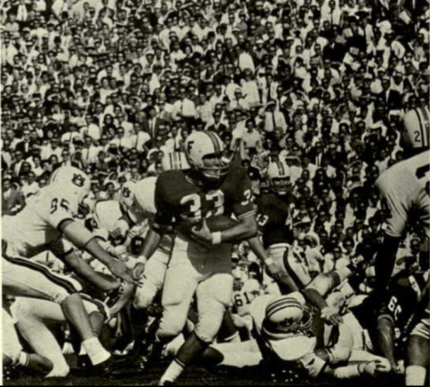 Photograph of Larry Smith playing in the October 29, 1966 game against Auburn University